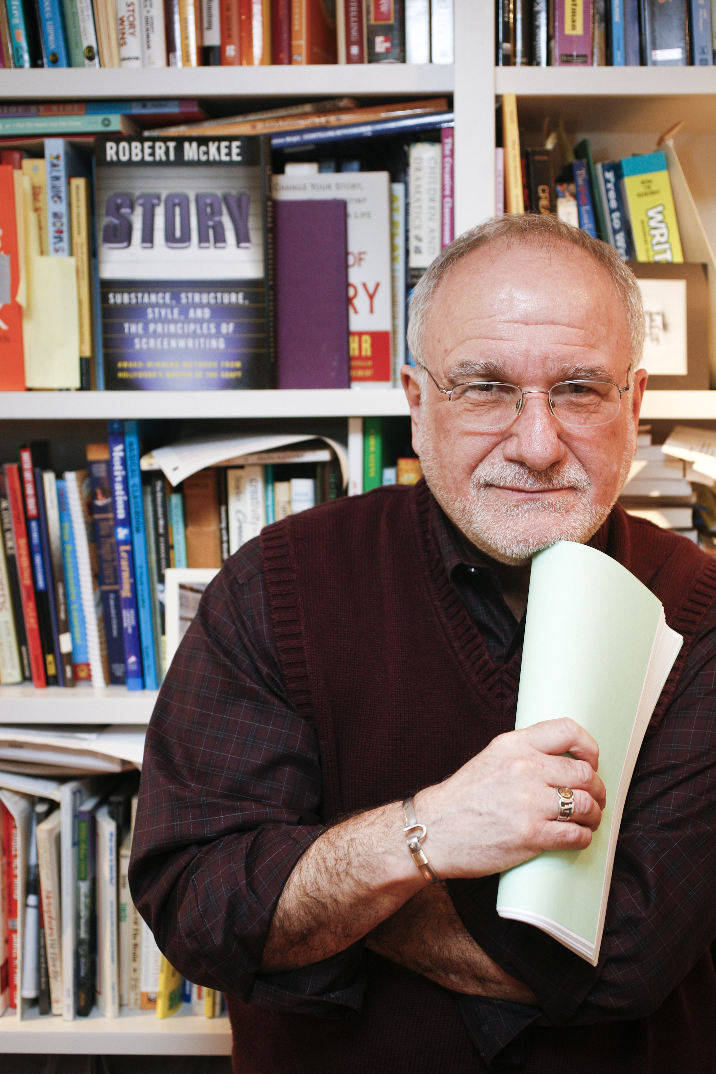 Harvey Kurek Ovshinsky